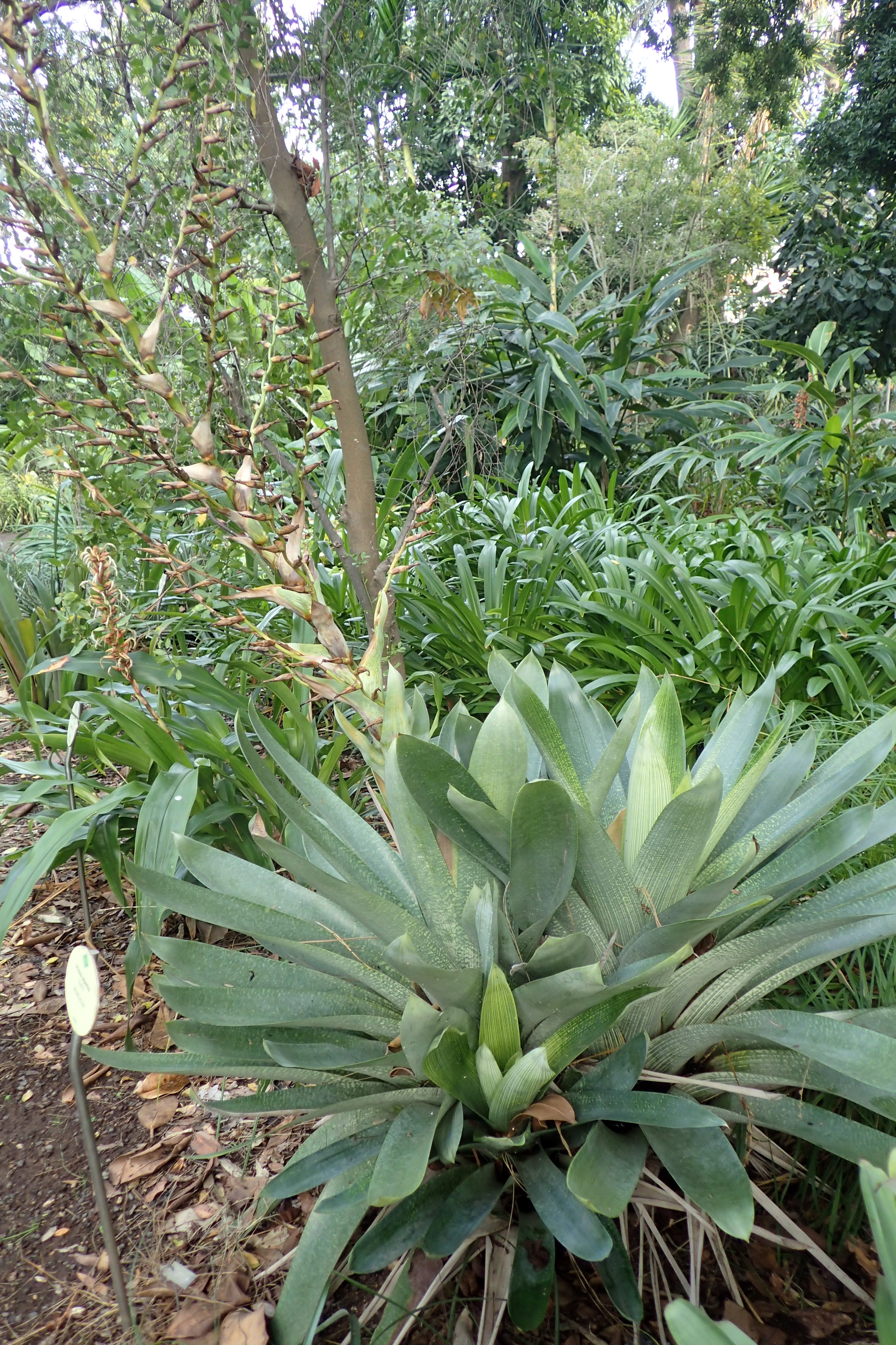 Vriesea gigantea in Jardín de Aclimatación de la Orotava